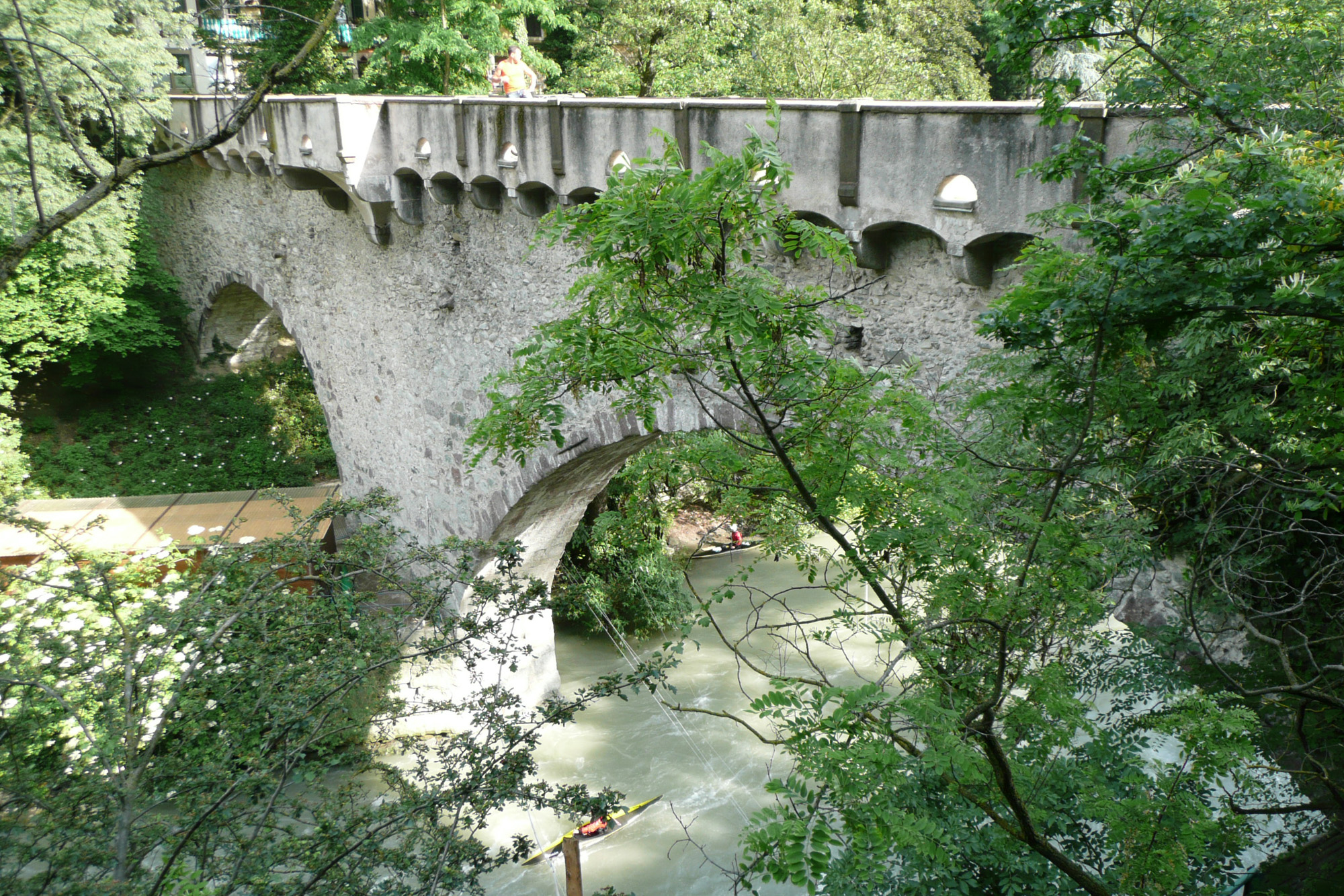 The Steinerner Steg (Stone Footbridge) over the Passer in Meran, South Tyrol. View at upstream side.